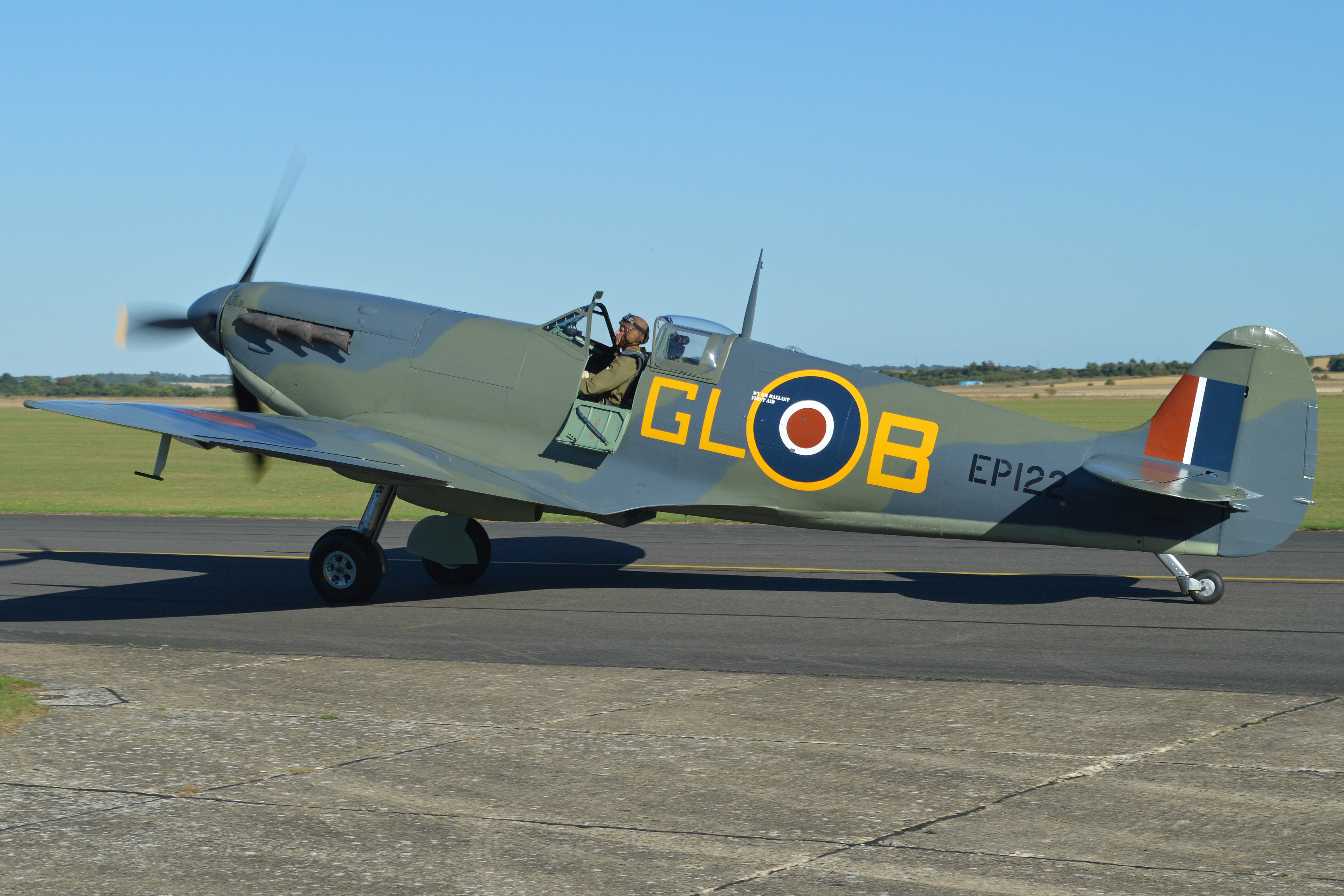 c/n CBAF.2405. Operated by Commanche Fighters and with 'Dunkirk' filming now complete she has returned to her own genuine 185sqn markings from her time defending Malta in 1942. She is seen taxiing in after flying as part of a 14 aircraft formation of Spitfires during the IWM organised 'Meet the Fighters' airshow. Duxford Airfield, Cambridgeshire, UK. 11-9-2016